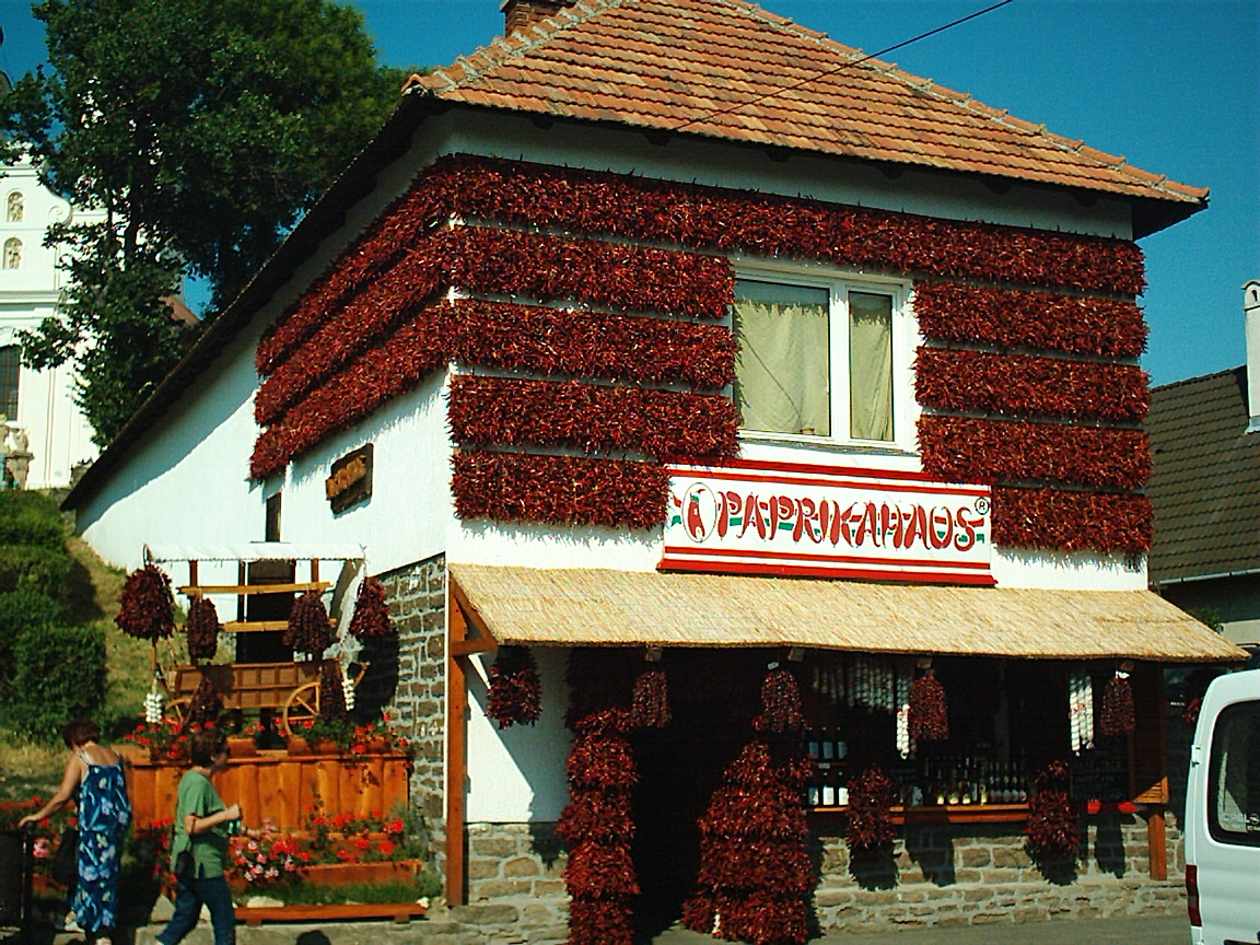 Tihany, Paprikahouse